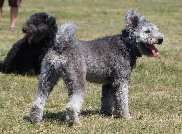 Pumik játék után a fűben (Tápiószentmárton)